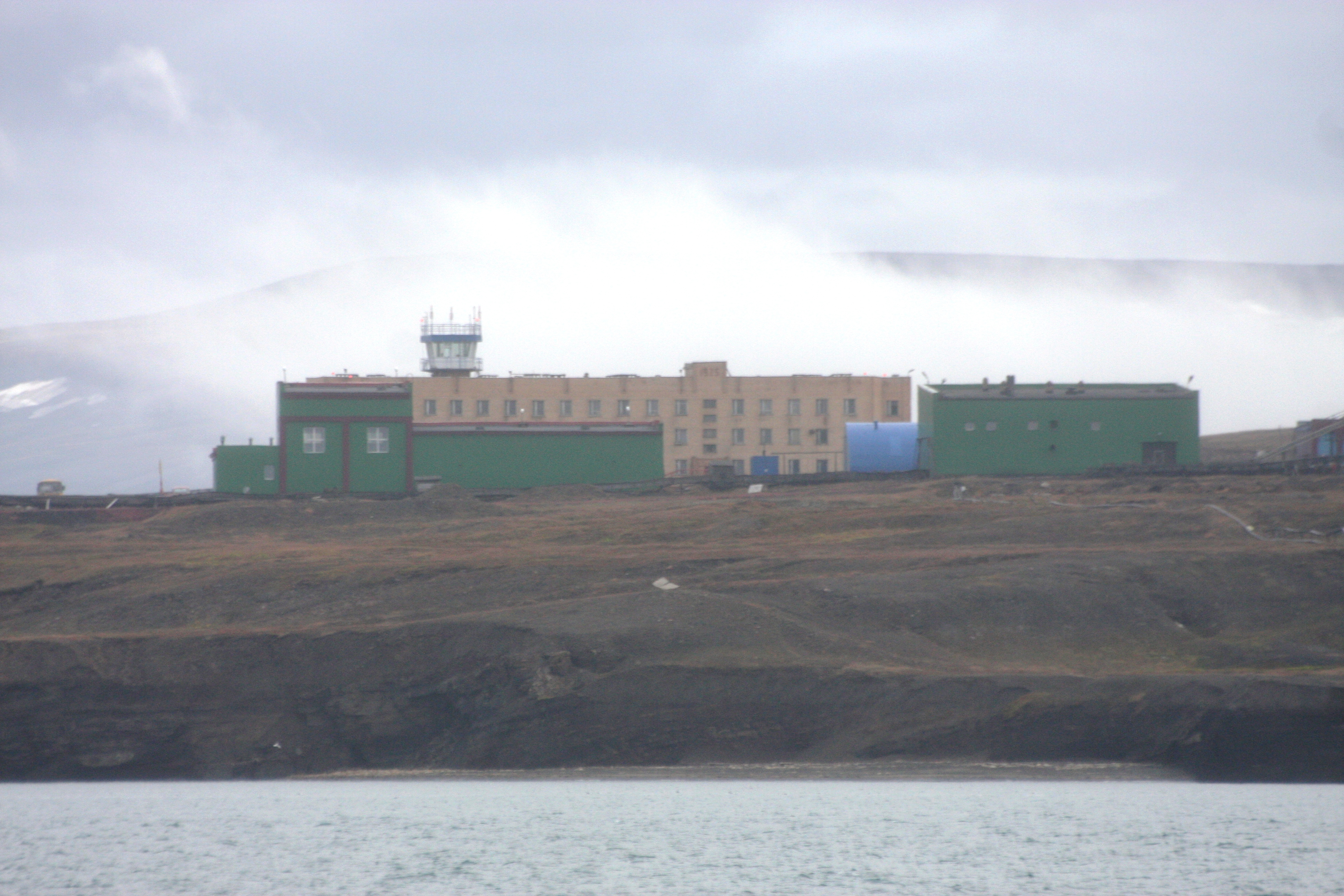 Heerodden north of Barentsburg. Russian heliport. Seen from Grönfjorden. Svalbard